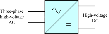 Generic symbol for an HVDC converter